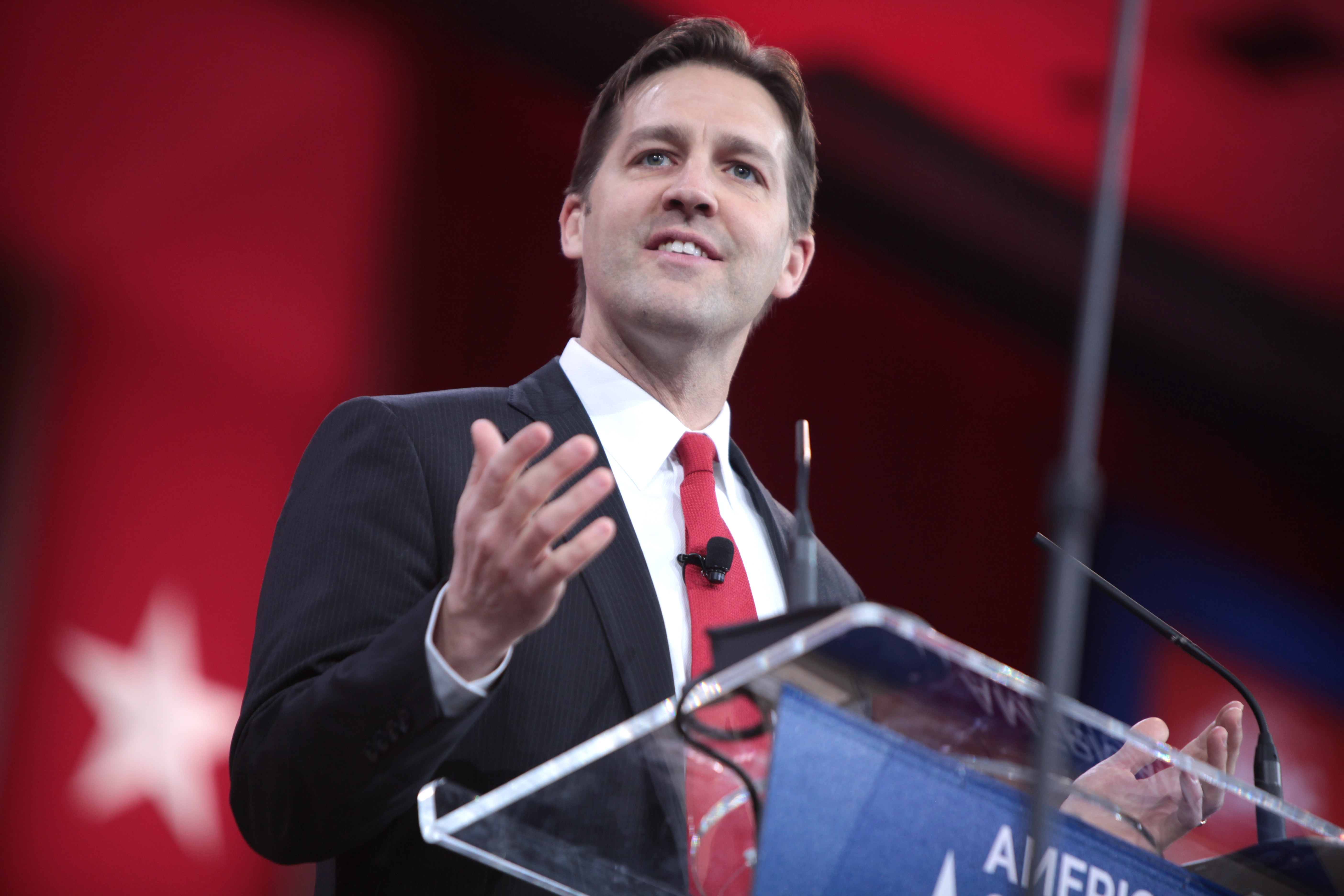 U.S. Senator Ben Sasse of Nebraska speaking at the 2015 Conservative Political Action Conference (CPAC) in National Harbor, Maryland.